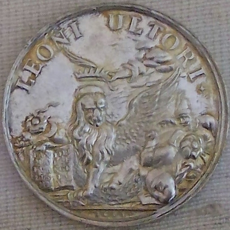 Commemorative medal for the conquest of Moreas (Μωρέας) by the Venetians. The Lion of Venice is crowned a victor by god, while corpses of Ottomans are scattered around. National Historical Museum, Athens, Greece.